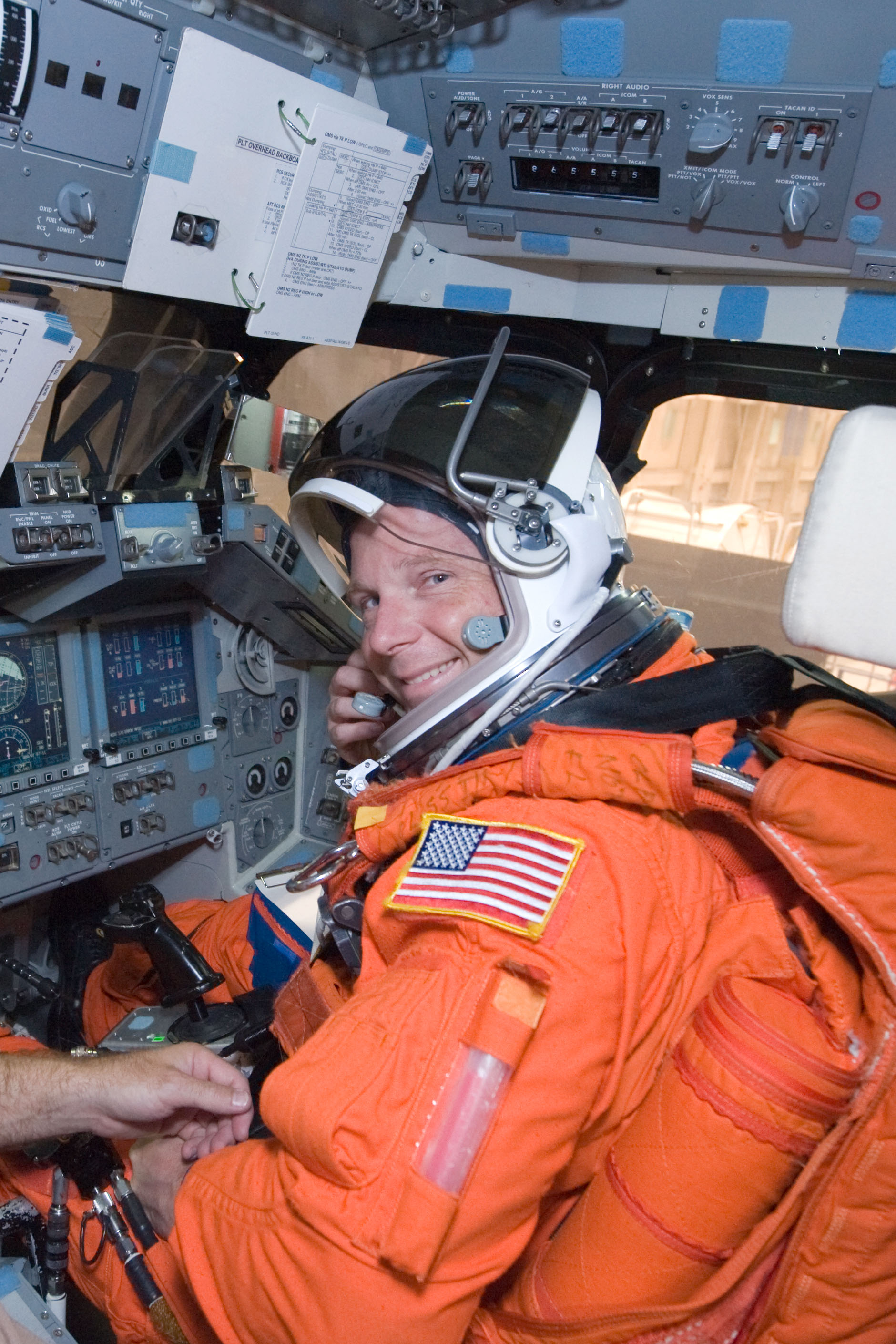 While seated at the pilot's station, astronaut Terry Virts Jr., STS-130 pilot, participates in a post insertion/de-orbit training session in the crew compartment trainer (CCT-2) in the Space Vehicle Mockup Facility at NASA's Johnson Space Center. Virts is wearing a training version of his shuttle launch and entry suit.